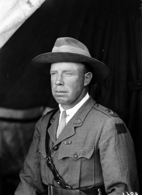 Portrait of Lieutenant Colonel (later Major General) John Dalyell Richardson, commanding officer of the 7th Australian Light Horse Regiment, in November 1918